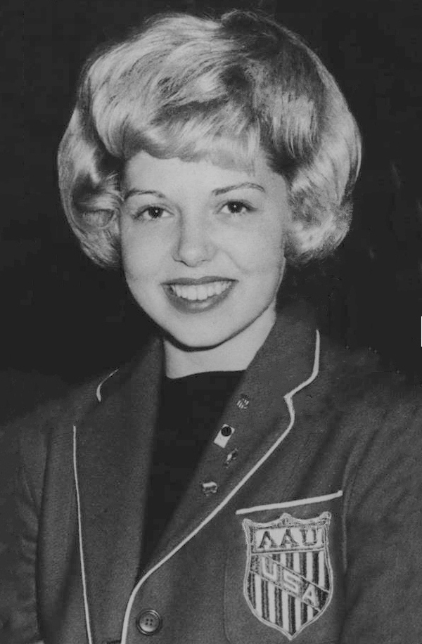 1963 Press Photo Marie Walther US Pan Am Games, Gymnast - cvb65400